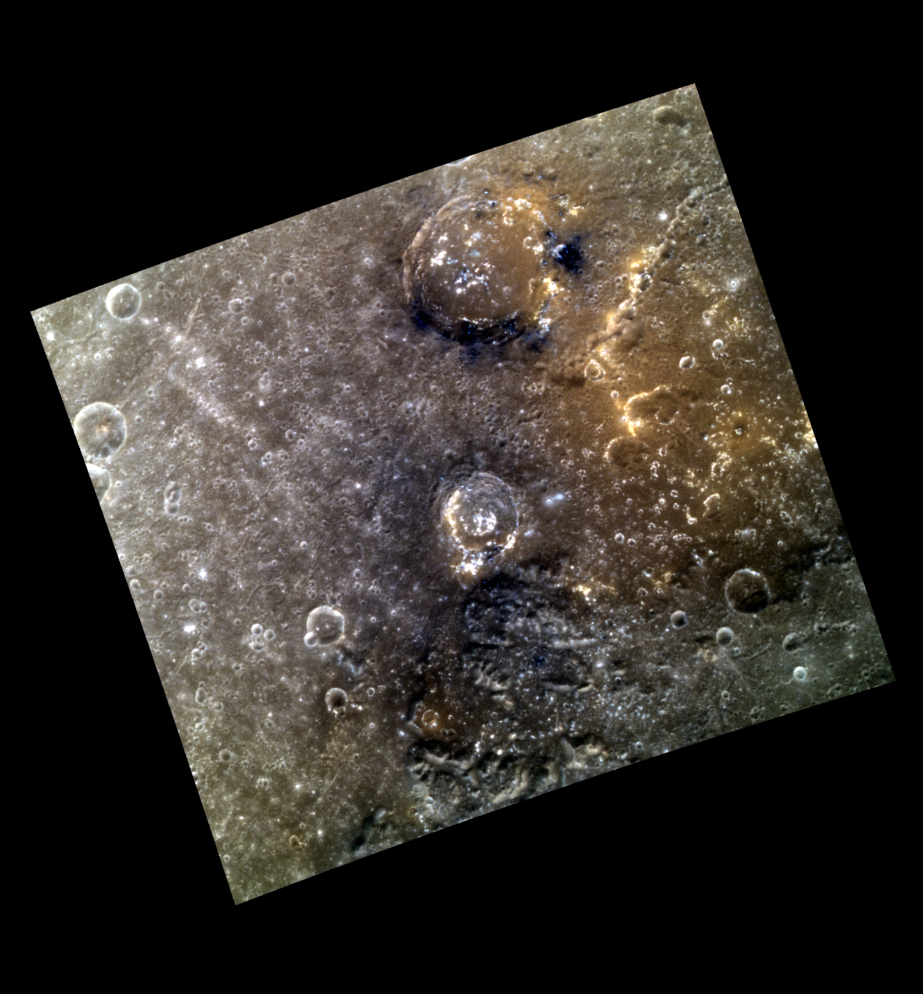 Date acquired: October 24, 2013 Image Mission Elapsed Time (MET): 24470528, 24960452, 24470516 Image ID: 5033545, 5068359, 5033542 Instrument: Wide Angle Camera (WAC) of the Mercury Dual Imaging System (MDIS) WAC filters: 9, 7, 6 (996, 748, 433 nanometers) in red, green, and blue Center Latitude: 23.72° Center Longitude: 179.1° E Resolution: 260 meters/pixel Scale: The larger crater near the top of the image is approximately 54 km (33.5 mi.) in diameter. Incidence Angle: 24.8° Emission Angle: 8.4° Phase Angle: 33.2° This area is now known as Slang Faculae. The original NASA caption follows: Of Interest: Today's image features several craters near the eastern edge of the Caloris basin. The larger craters have excavated low reflectance material, and both have hollows forming within their floors. Reddish deposits that exhibit a spectral signature similar to pyroclastics occur in the northeastern quadrant of this scene, suggesting that this region may have once been the site of explosive volcanism. This image was acquired as a targeted high-resolution 11-color image set. Acquiring 11-color targets is a new campaign that began in March 2013 and that utilizes all of the WAC's 11 narrow-band color filters. Because of the large data volume involved, only features of special scientific interest are targeted for imaging in all 11 colors.